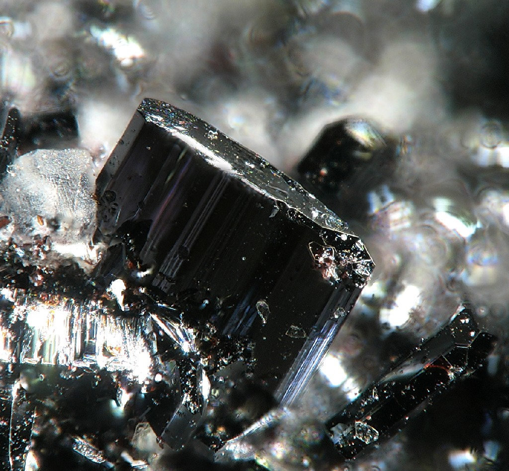 Quenselite Locality: Långban, Filipstad, Värmland, Sweden (Locality at ) Picture width 0,5 mm. Collection and photograph Christian Rewitzer